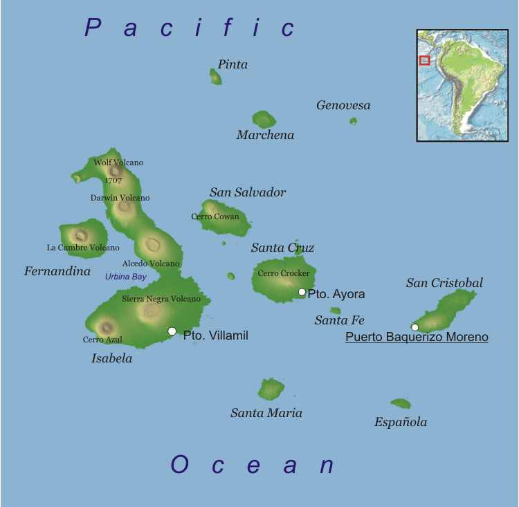 Map of Galapagos Islands (Ecuador, South America)